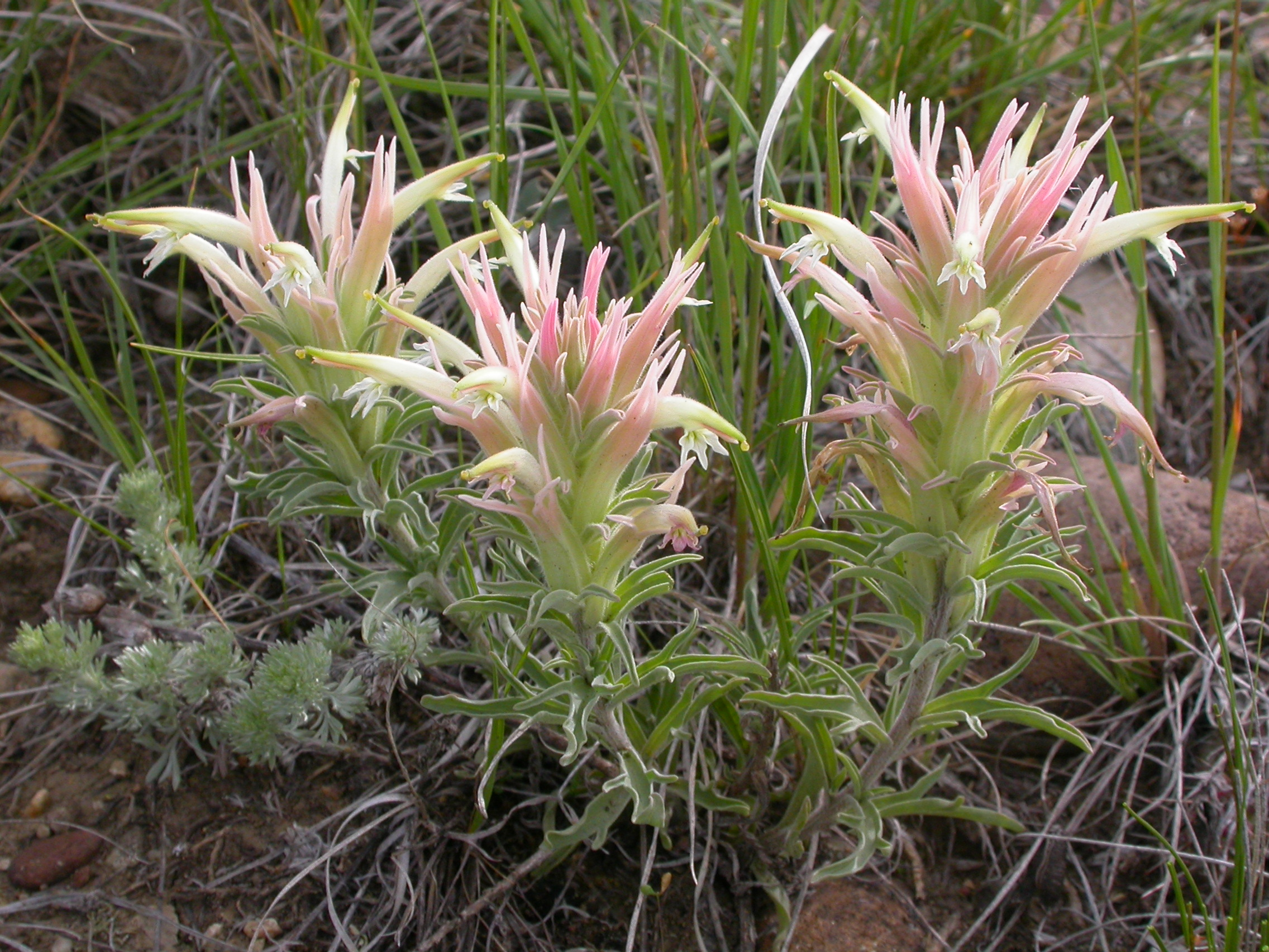 Although in the sagebrush steppe, this species seems to be a bit more common on the slopes associated with the draws in this area.